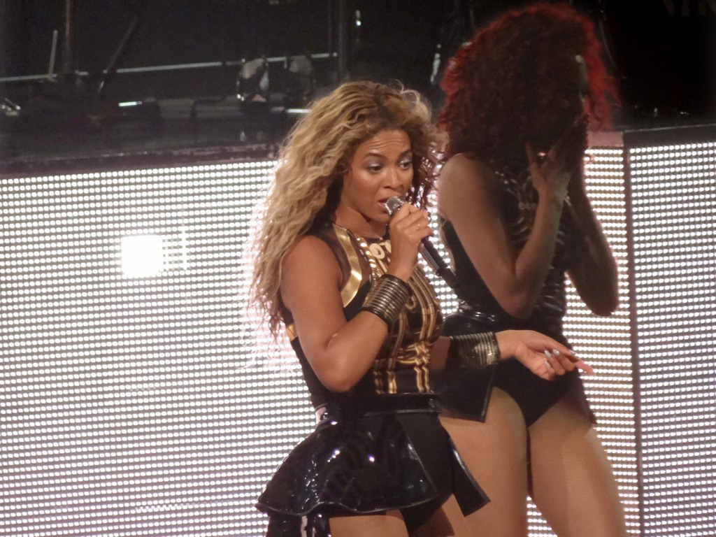 Beyonce performing in Montreal in 2013 during The Mrs. Carter Show World Tour.